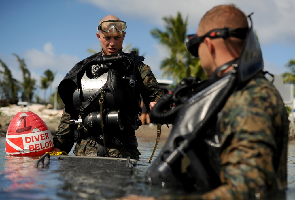 Sgt. Anthony Jacks enters Kaneohe Bay, Hawaii, for a refresher dive Sept. 17. Jacks and other Marines with Reconnaissance Platoon, Battalion Landing Team 2/4, 11th Marine Expeditionary Unit, practiced numerous insertion techniques Sept. 17-22 during their final training before deploying with the 11th MEU Sept. 24. Jacks is a team leader in the platoon.